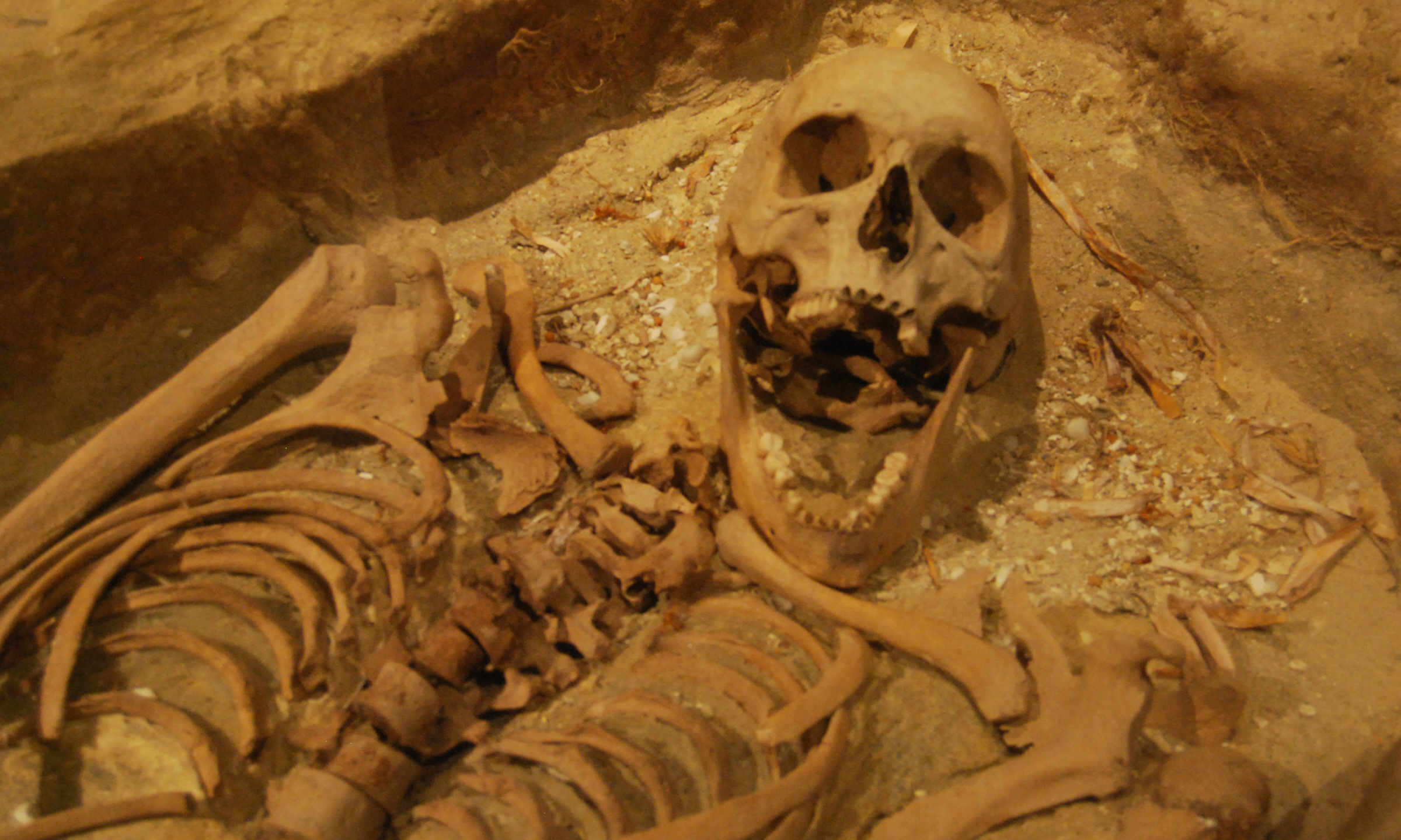 One of the Batavia mutiny (1629) victims, excavated on Beacon Island and now displayed at Fremantle Shipwreck Museum